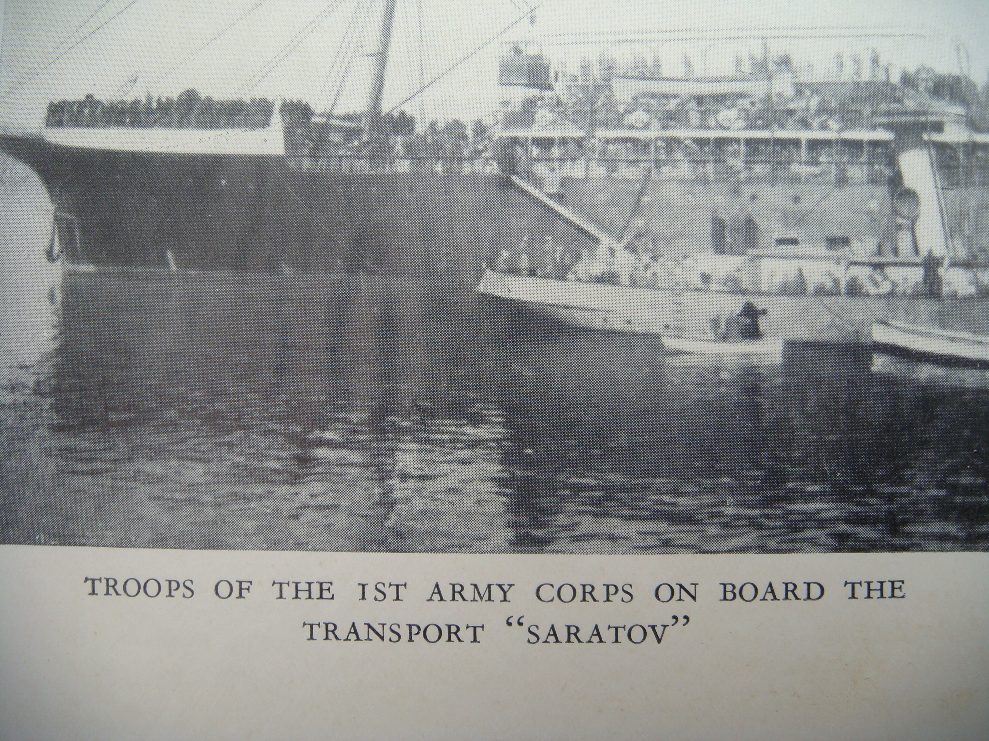 Troops of Russian Army of General Wrangel embarking m. s. Saratov during Crimean Evacuation. November 1920.